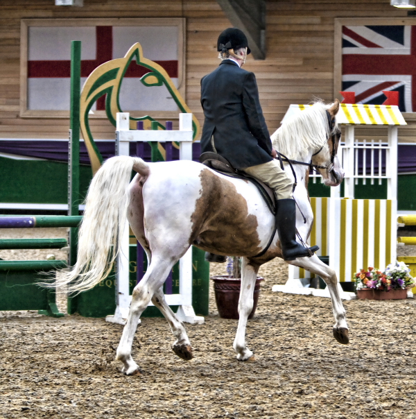 Alan with It's Showtyme Arab Stallion